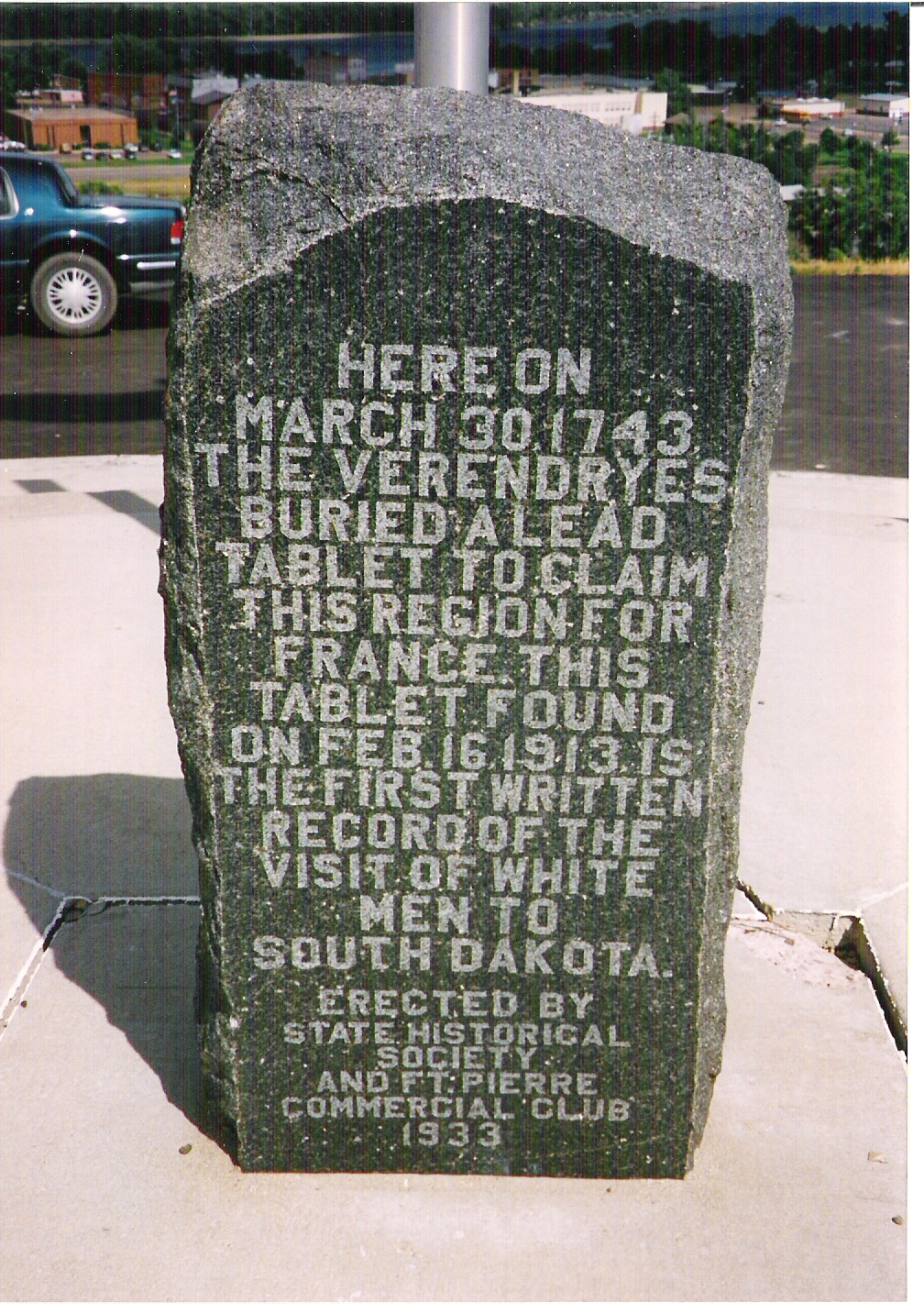 The historical stone marker where a lead tablet of the La Vérendrye Brothers was found in 1913